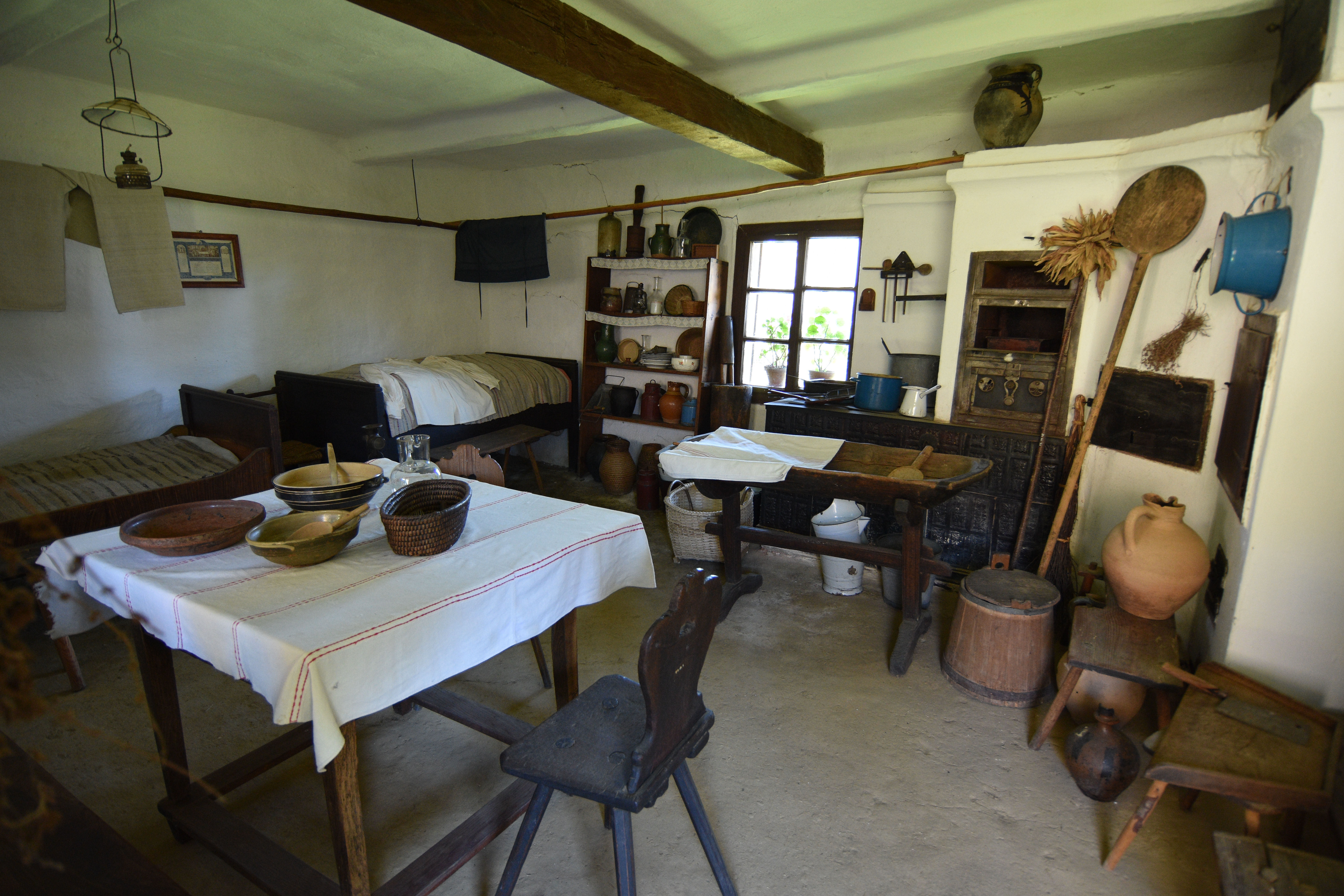 Pityerszer (Szalafo) Interior